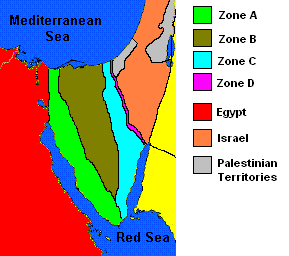 Representation of the divisions of the Sinai Peninsula. Created by Hammersfan.